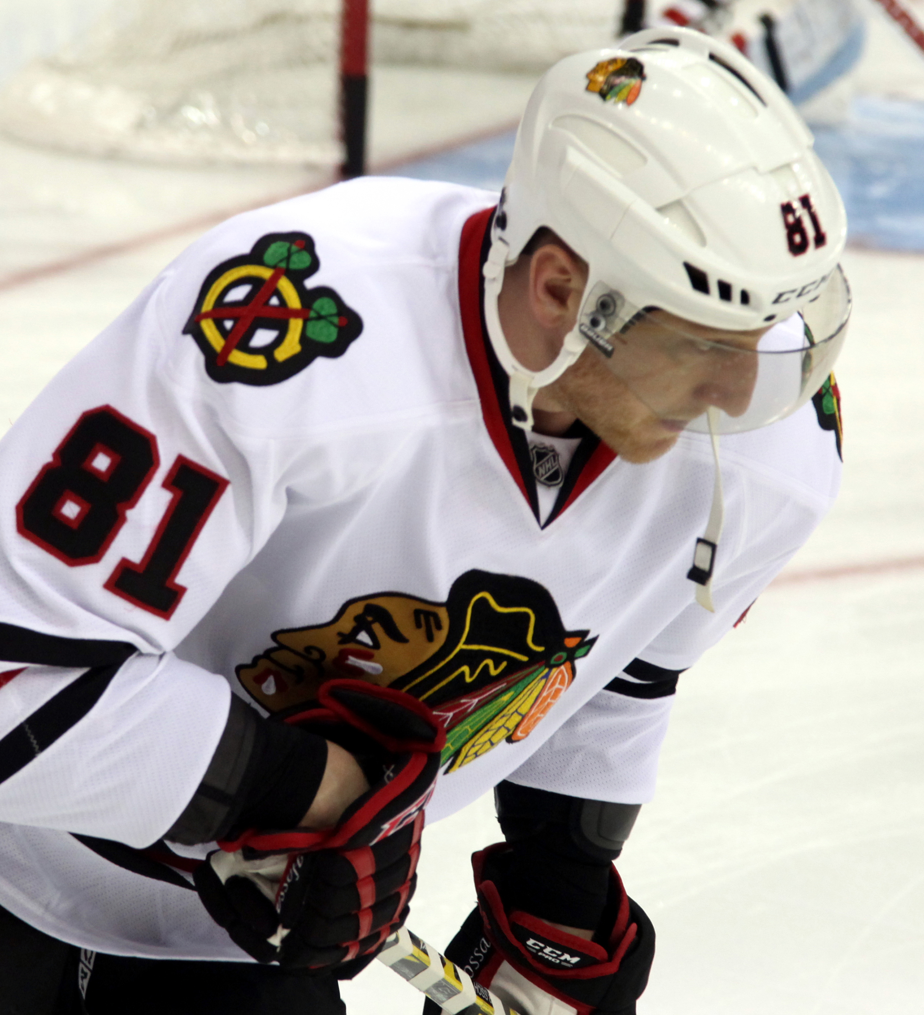 Marian Hossa in December 2014.